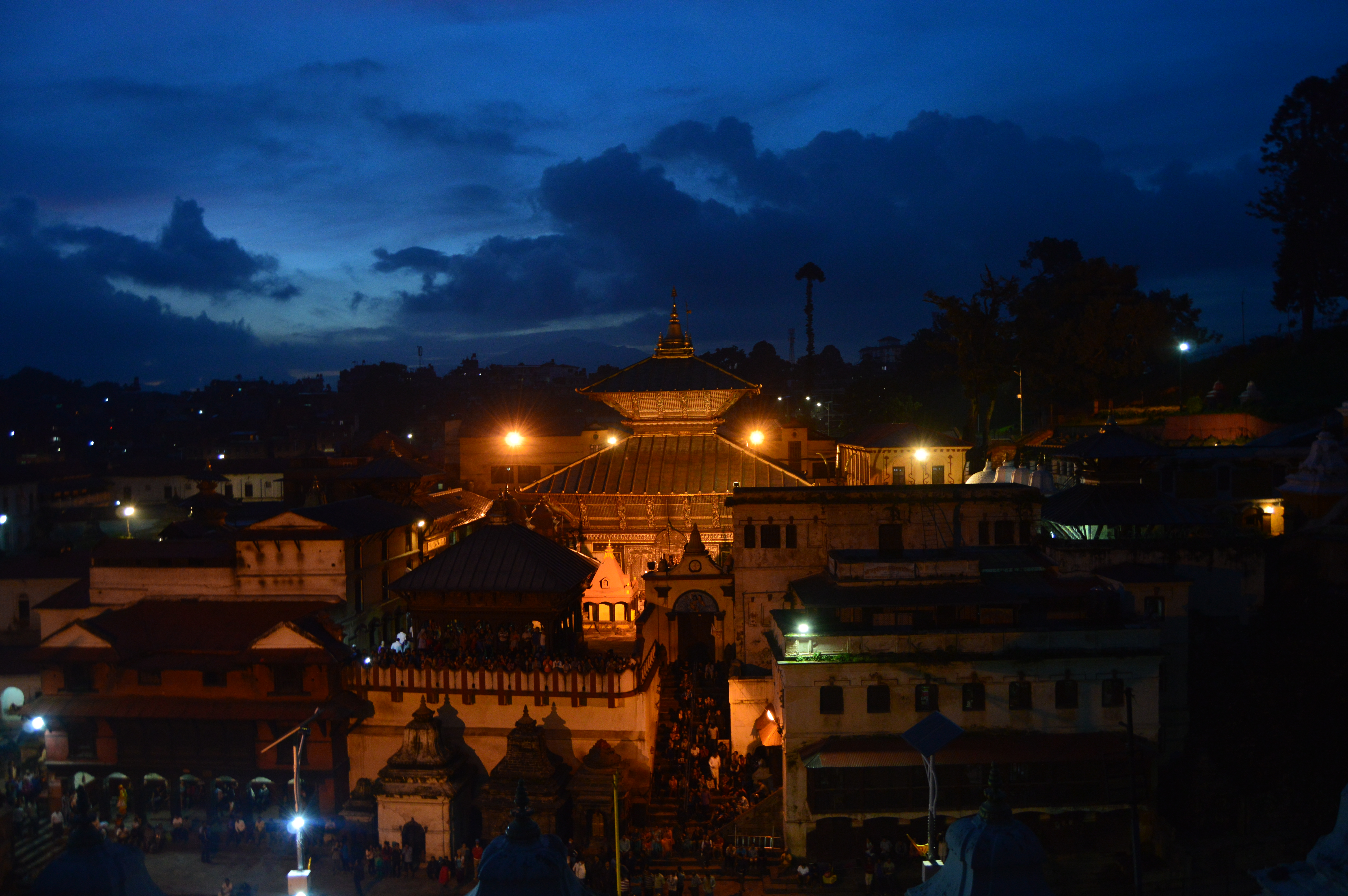 Pashupatinath Temple